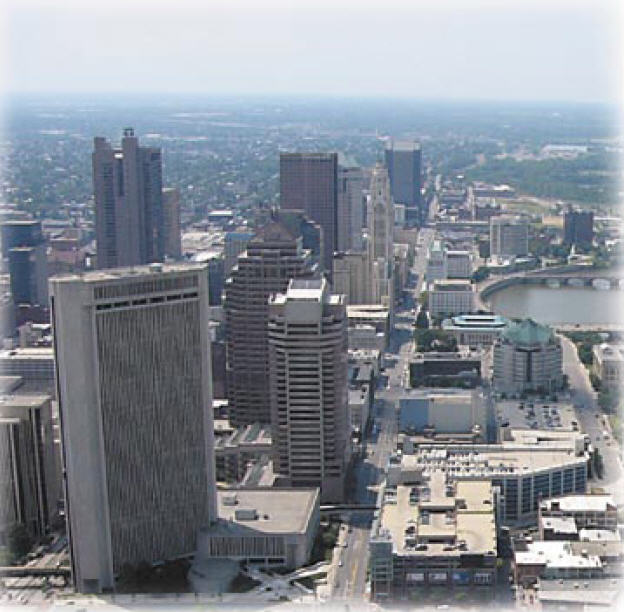 Image of Columbus, Ohio downtown, looking south down Front Street toward the Lincoln Leveque Tower